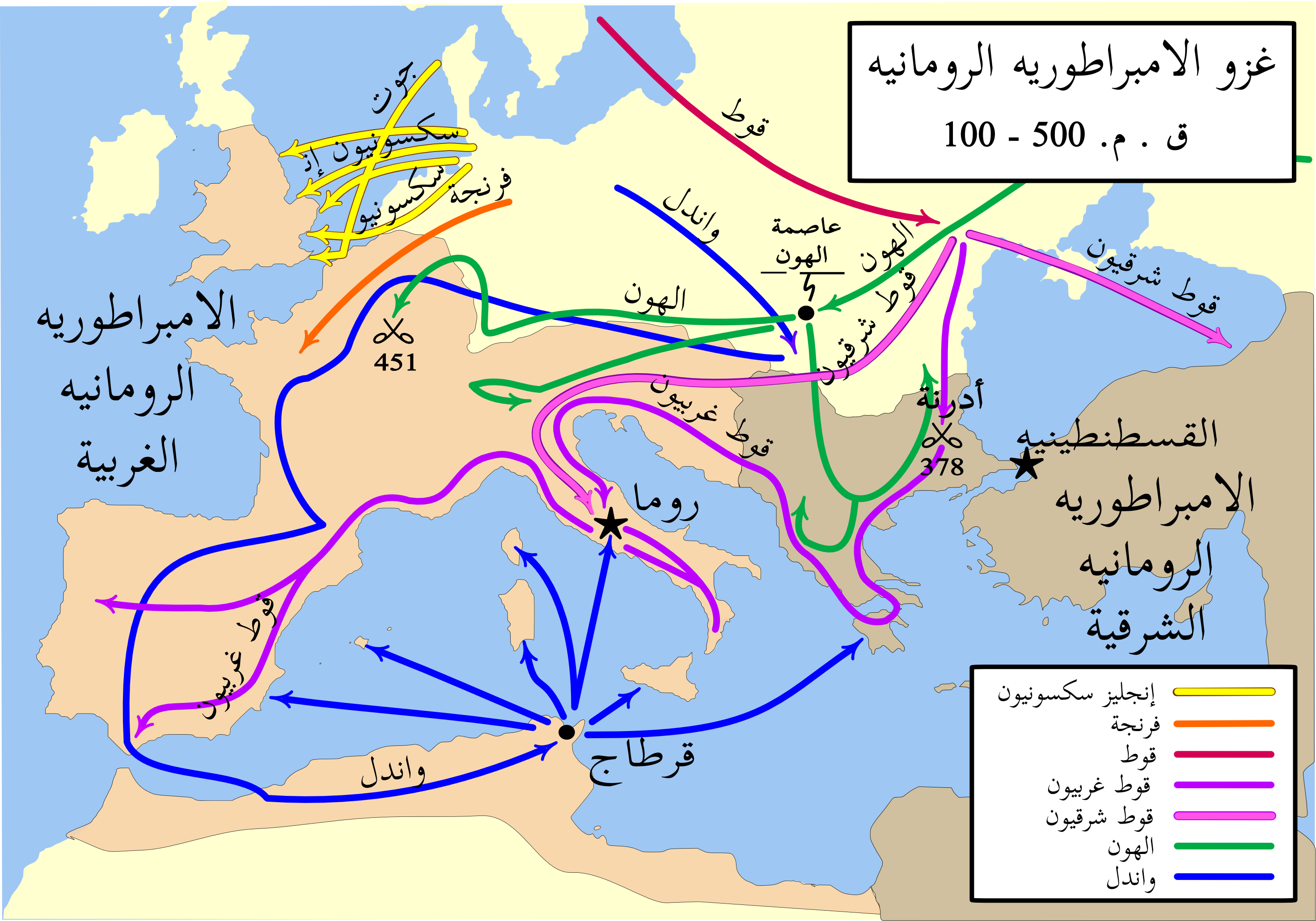 Map of the "barbarian" invasions of the Roman Empire showing the major incursions from 100 to 500 CE.